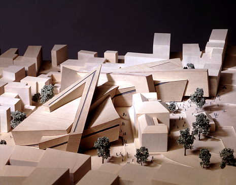 Architectural Proposal for the New Acropolis Museum